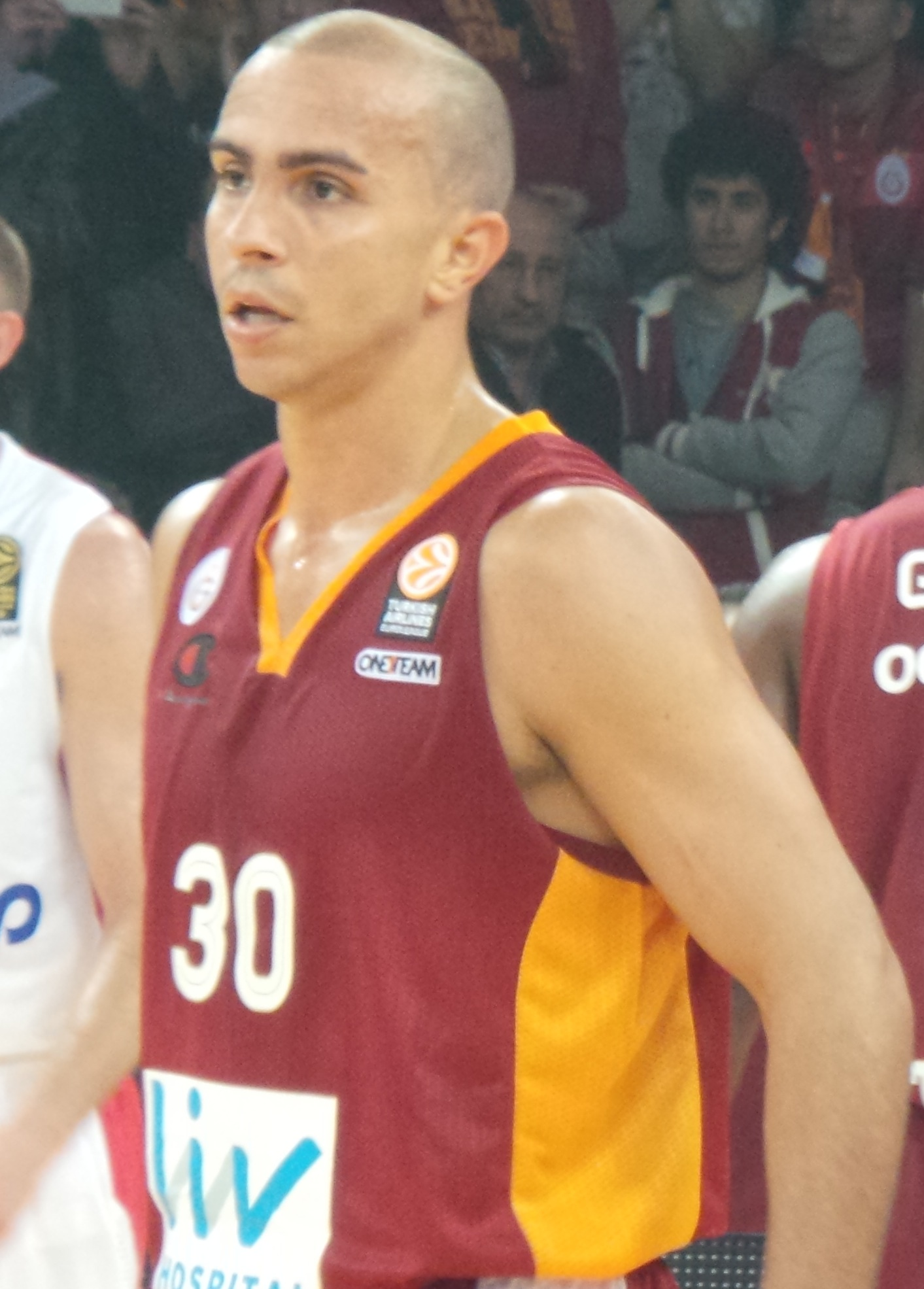 Arroyo vs Olympiakos